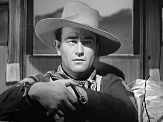 This image is a screenshot from a public domain trailer for the 1938 film, Stagecoach. Trailers for movies released before 1964 are in the Public Domain because they were never separately copyrighted.